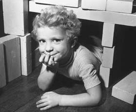 Crown Prince Carl Gustaf at Haga.